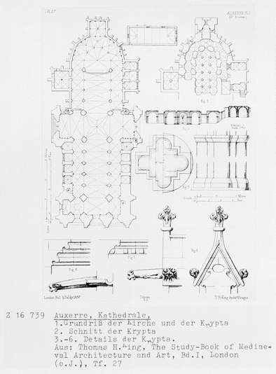 St-Etienne cathedral, Auxerre, Yonne, Burgundy. Floor plan dated 1857, including that of the crypt and drawings of some details. Plate n° 27 in "Study book of Mediaeval Architecture and Art", Thomas H. King, published in 1893.